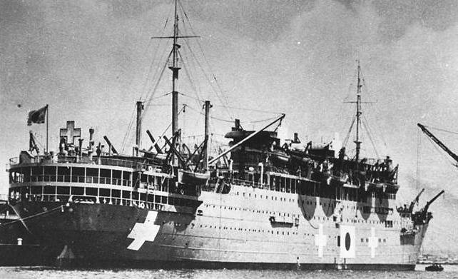 The Teia Maru (former MS Aramis) that was used as an exchange ship in 1943.